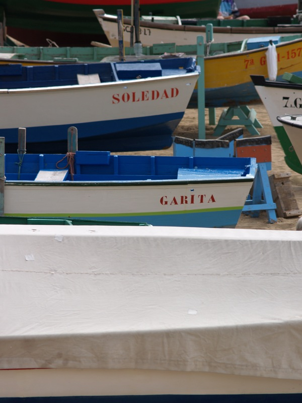 Boats of artisan fishing on "La Puntilla", Las Canteras Beach (Las Palmas de Gran Canaria, Canary Islands - Spain)